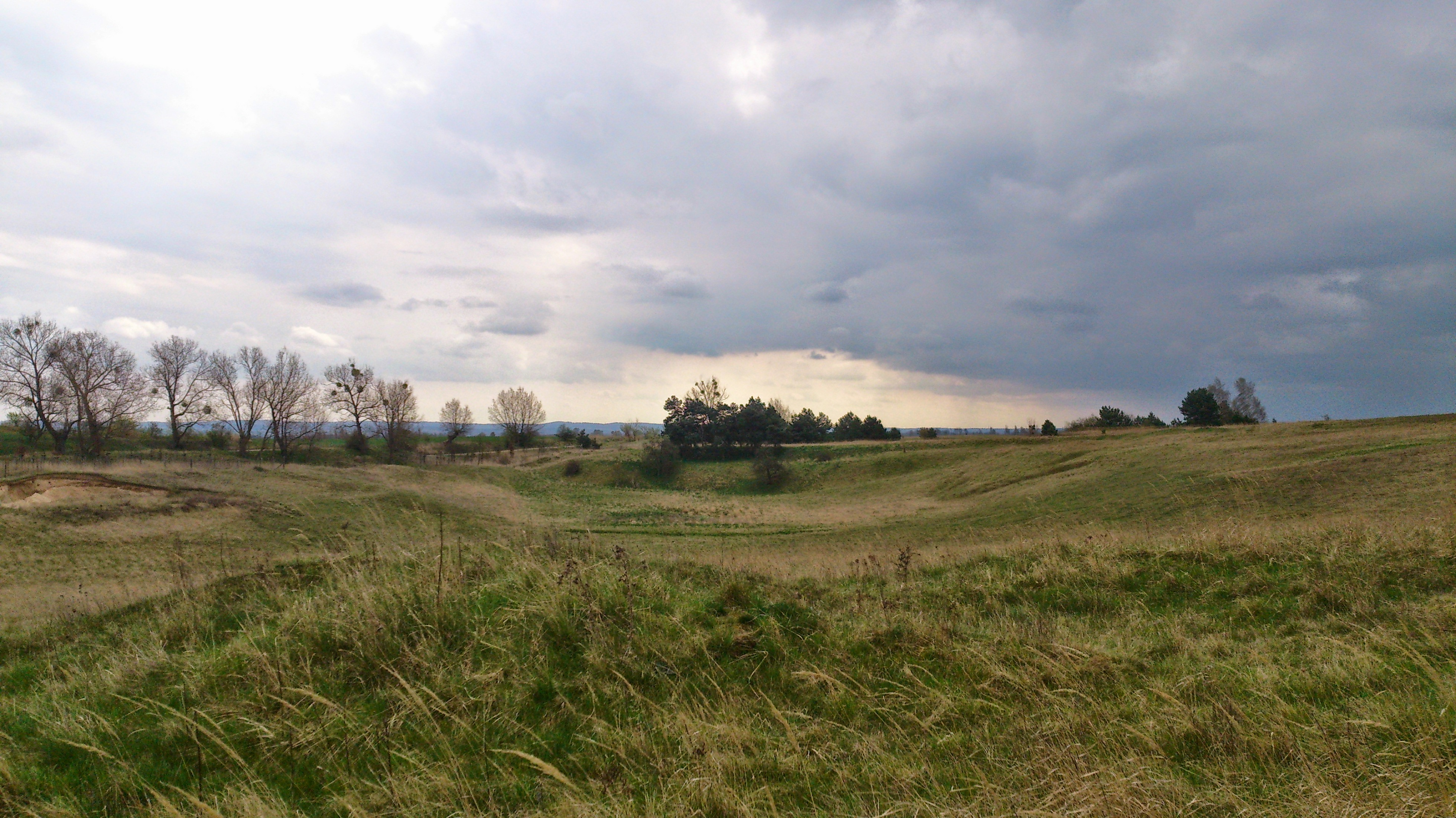 "Charlottenhöhe" nature reserve in the Uckermark (Germany)